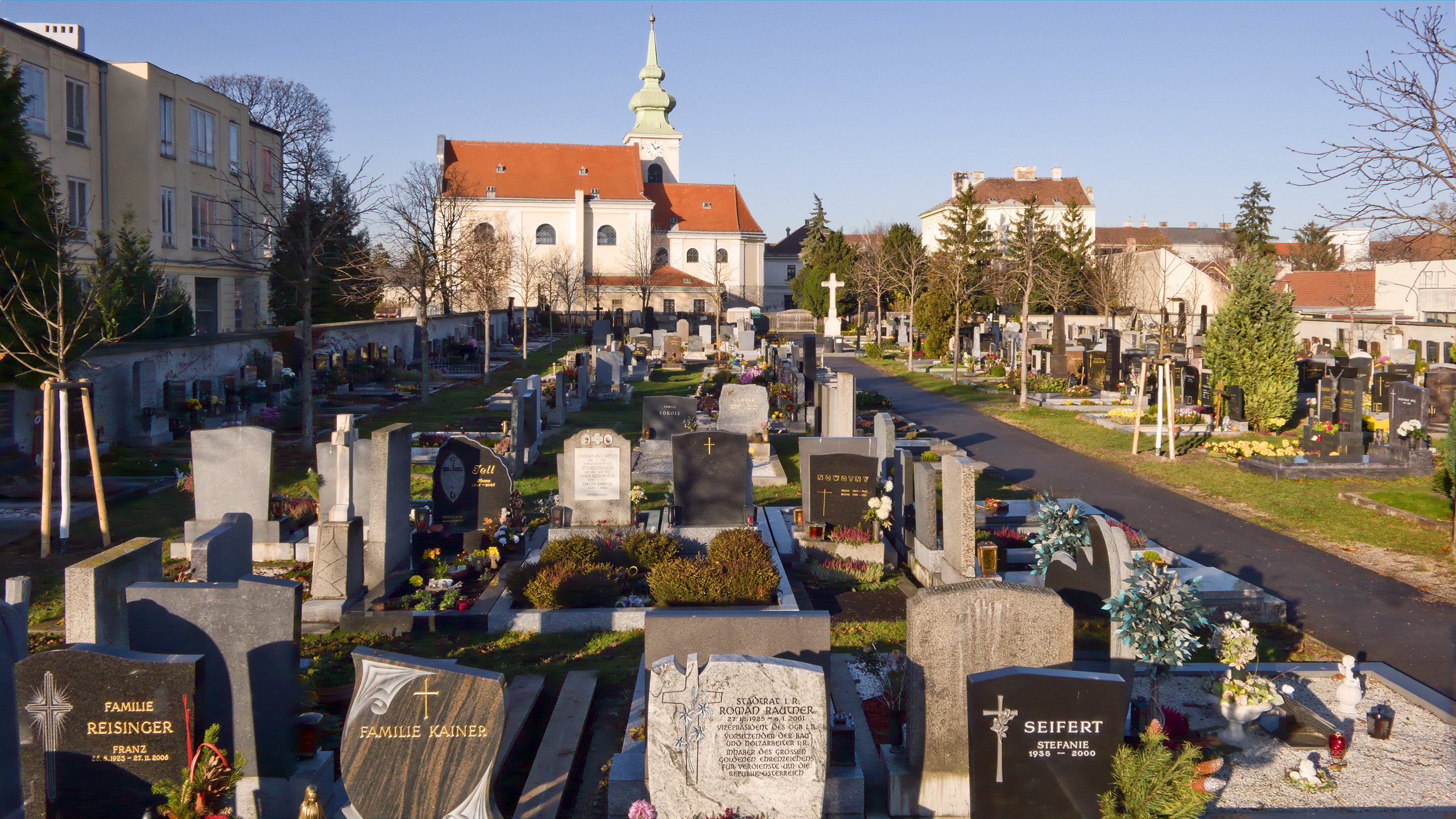 Leopoldauer Friedhof in Vienna Floridsdorf